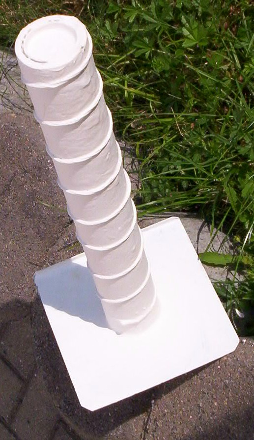 helical antenna, made for WLAN, operating in the range of app. 2,4GHz, gain approx. 15dBi